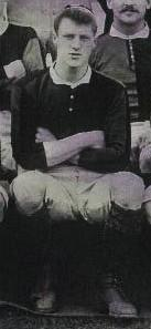 Image of G H “Bert” Gould - Rugby union player - Newport RFC - Won 3 Welsh caps scoring 2 tries : 1892-1893 incl Triple Crown year 1893 for Wales – Brother of Artur and Bob